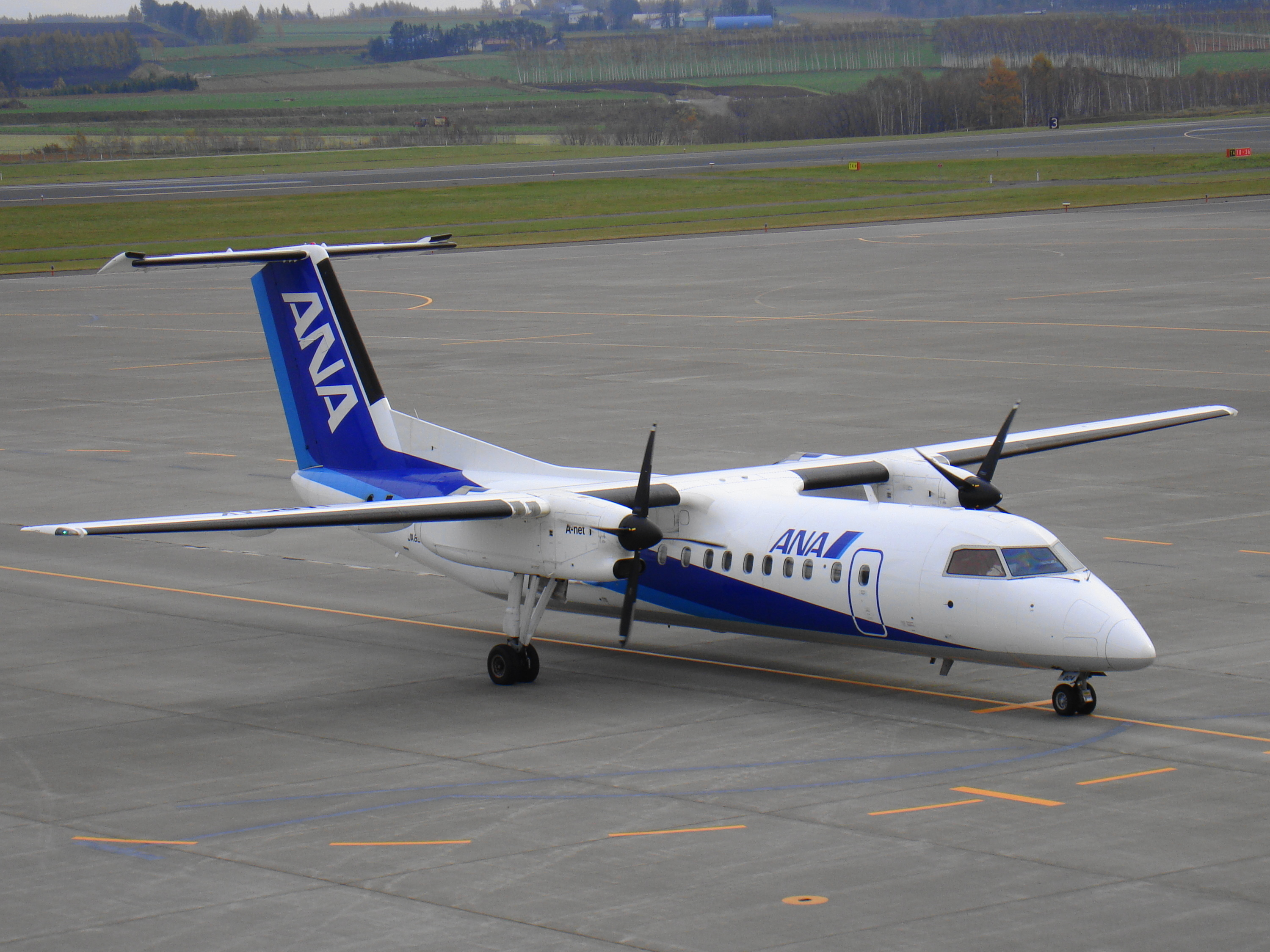 All Nippon Airways(Air Nippon Network) Bombardier Dash8 Q300 JA804K